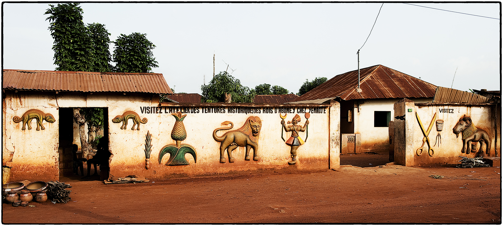 One of the royal palaces of Abomey, Benin